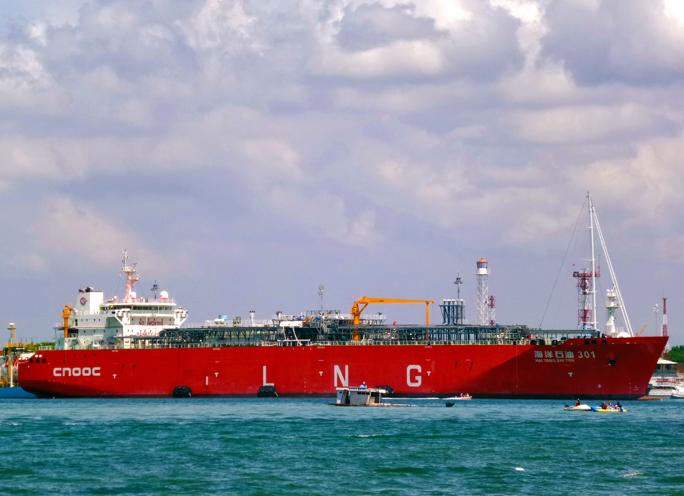 Chinese LNG tanker ship, currently docking at Benoa and still (and may be at the long time) at Benoa at the day I upload this image. Kapal tanker LNG berbendera RRT, bersandar di Benoa sejak lama. Masih bersandar saat ini.